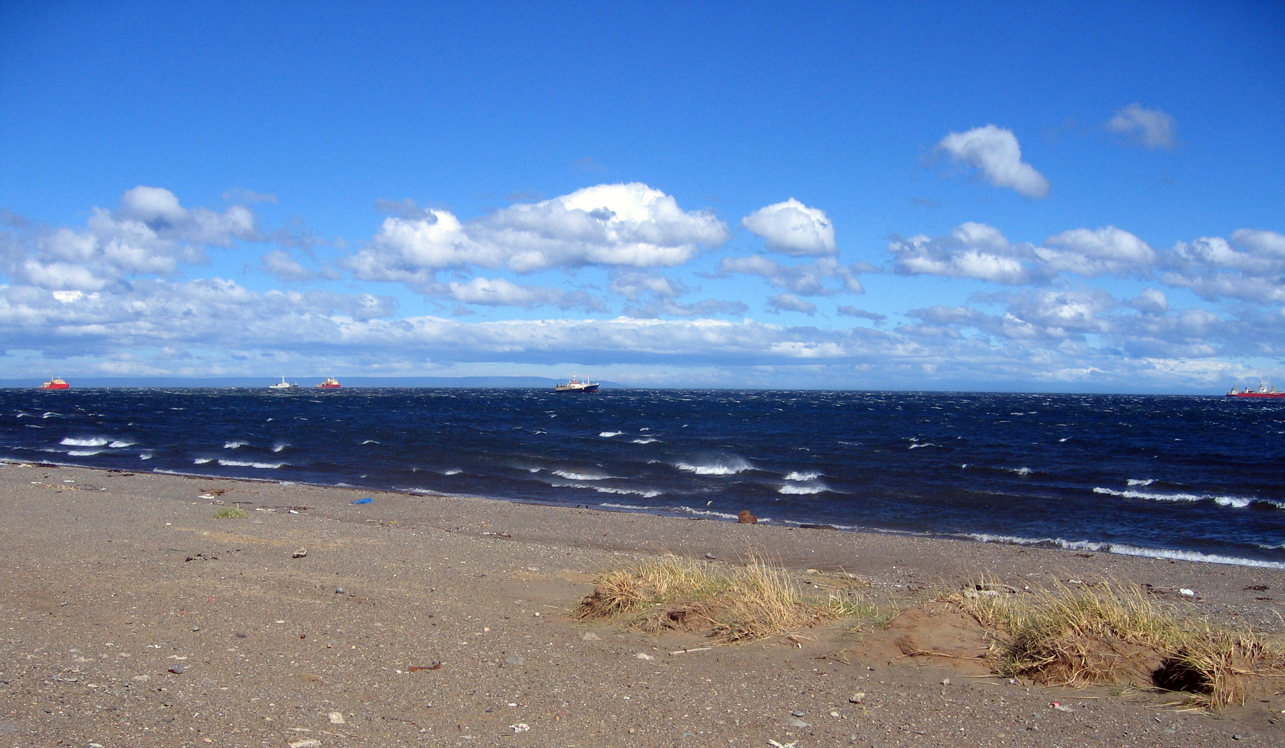 Strait of Magellan, Punta Arenas